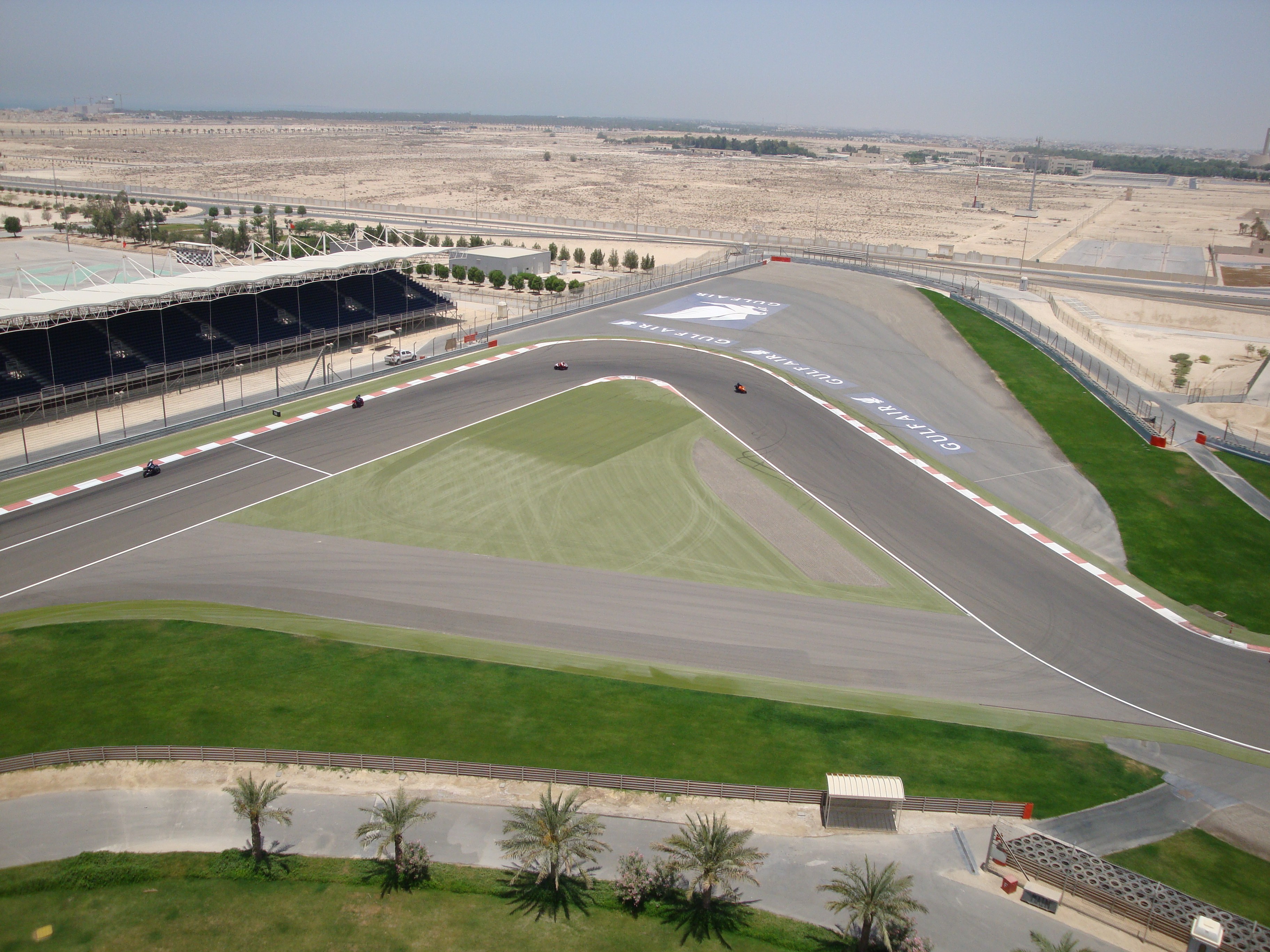 Bahrain International Circuit Curve number 19, VIP Tower.